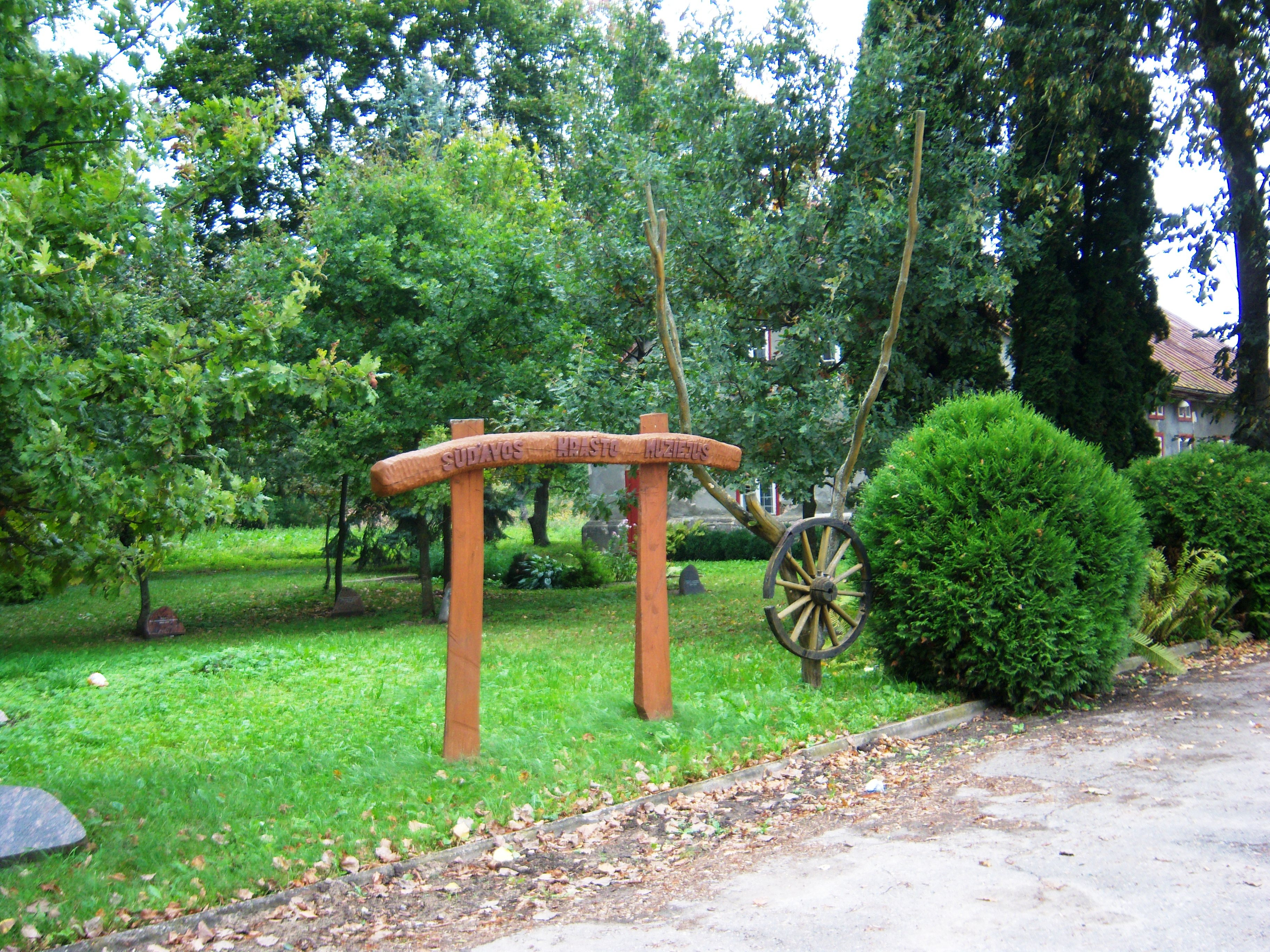 Sūdava museum, Vilkaviškis District, Lithuania